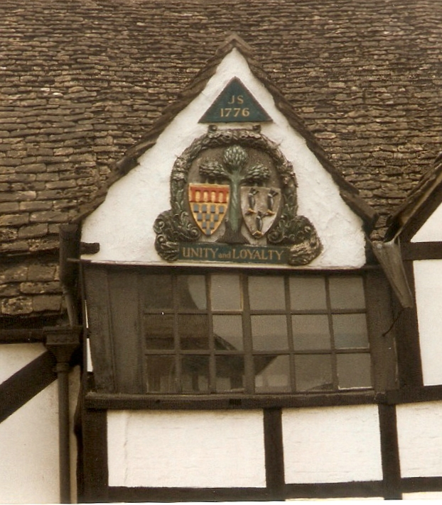 Arms of the town of Chippenham, England, as displayed on the Yelde Hall